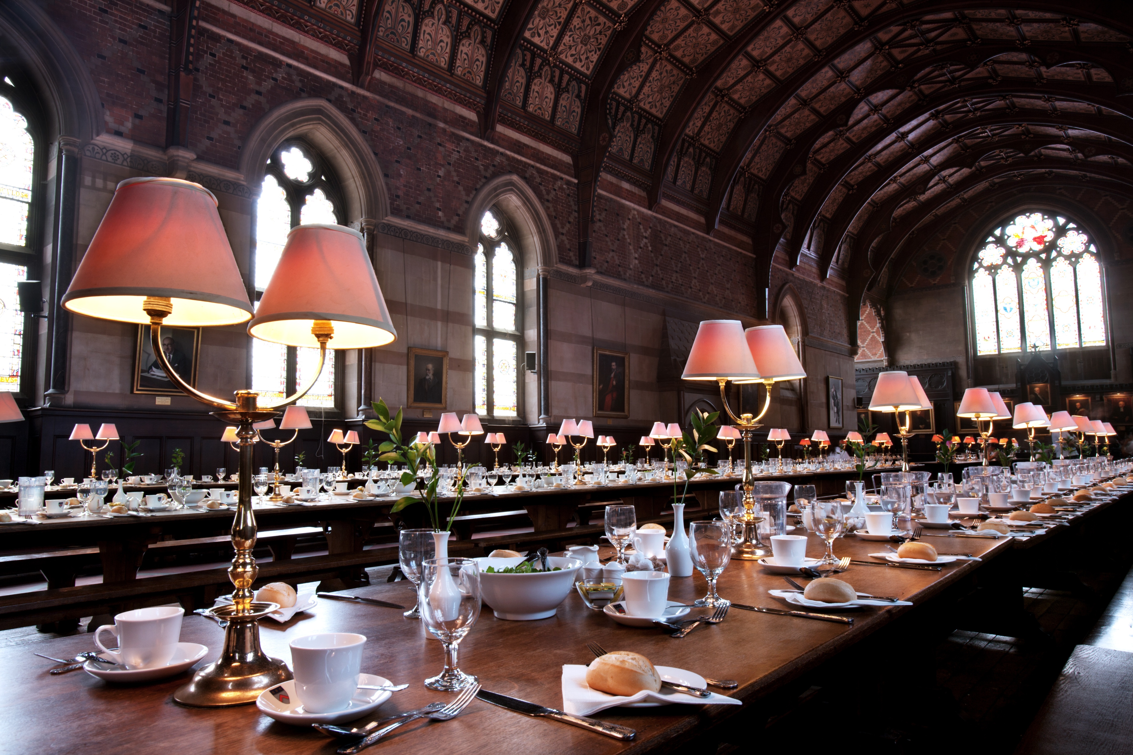 Main hall, Keble College, Oxford, UK